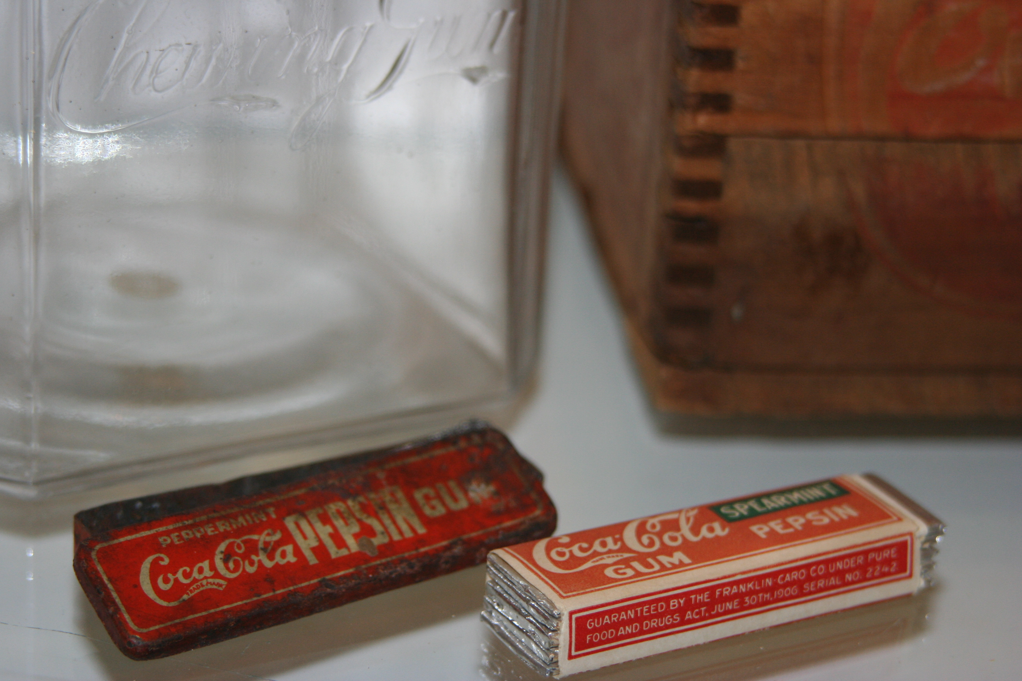 Mint Coca-Cola branded chewing gum from the early 20th century.